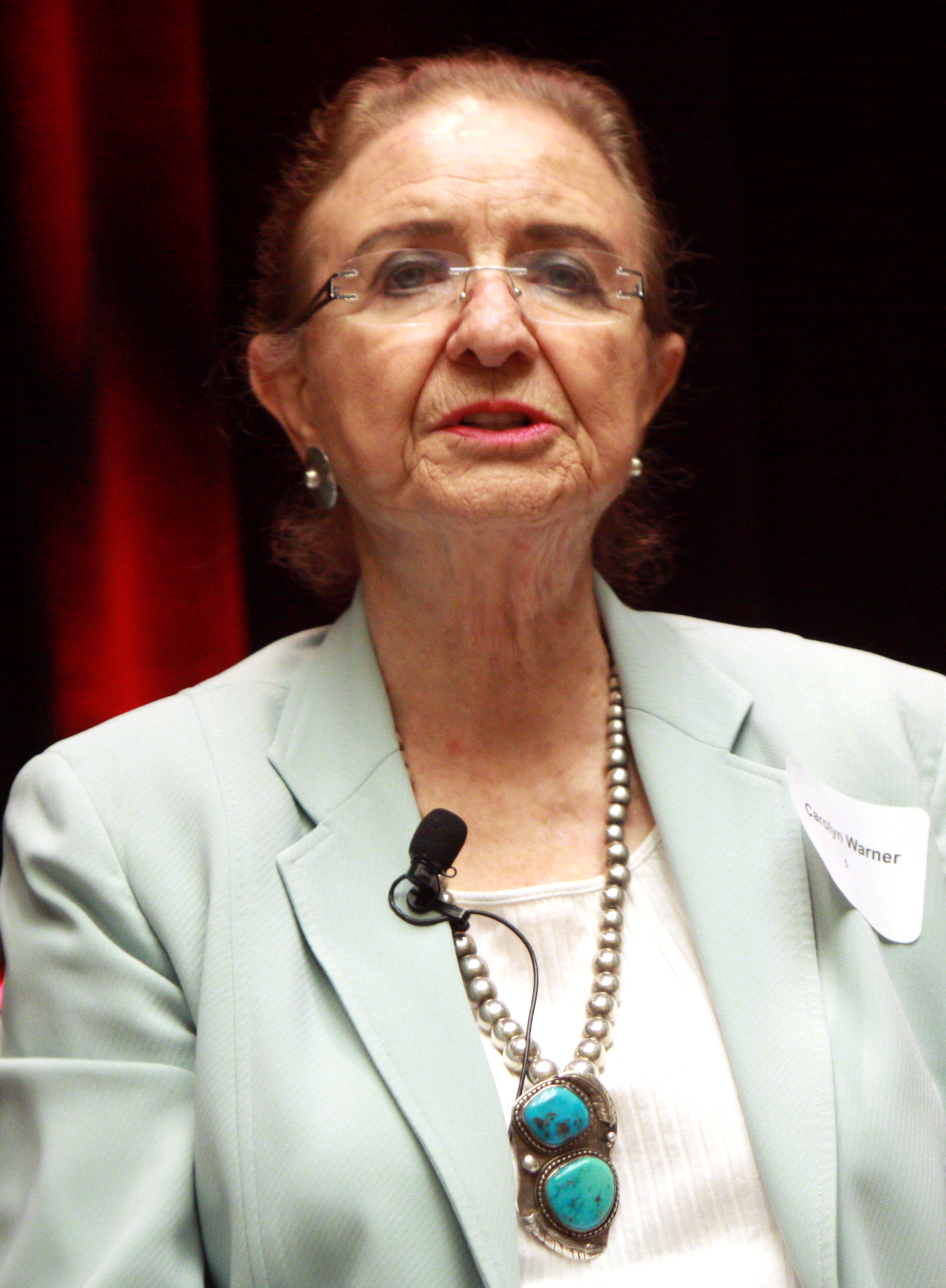 Carolyn Warner speaking at an event in Phoenix, Arizona.